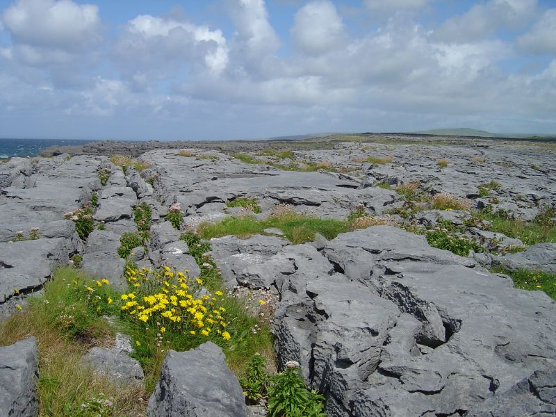 The Burren, Ireland